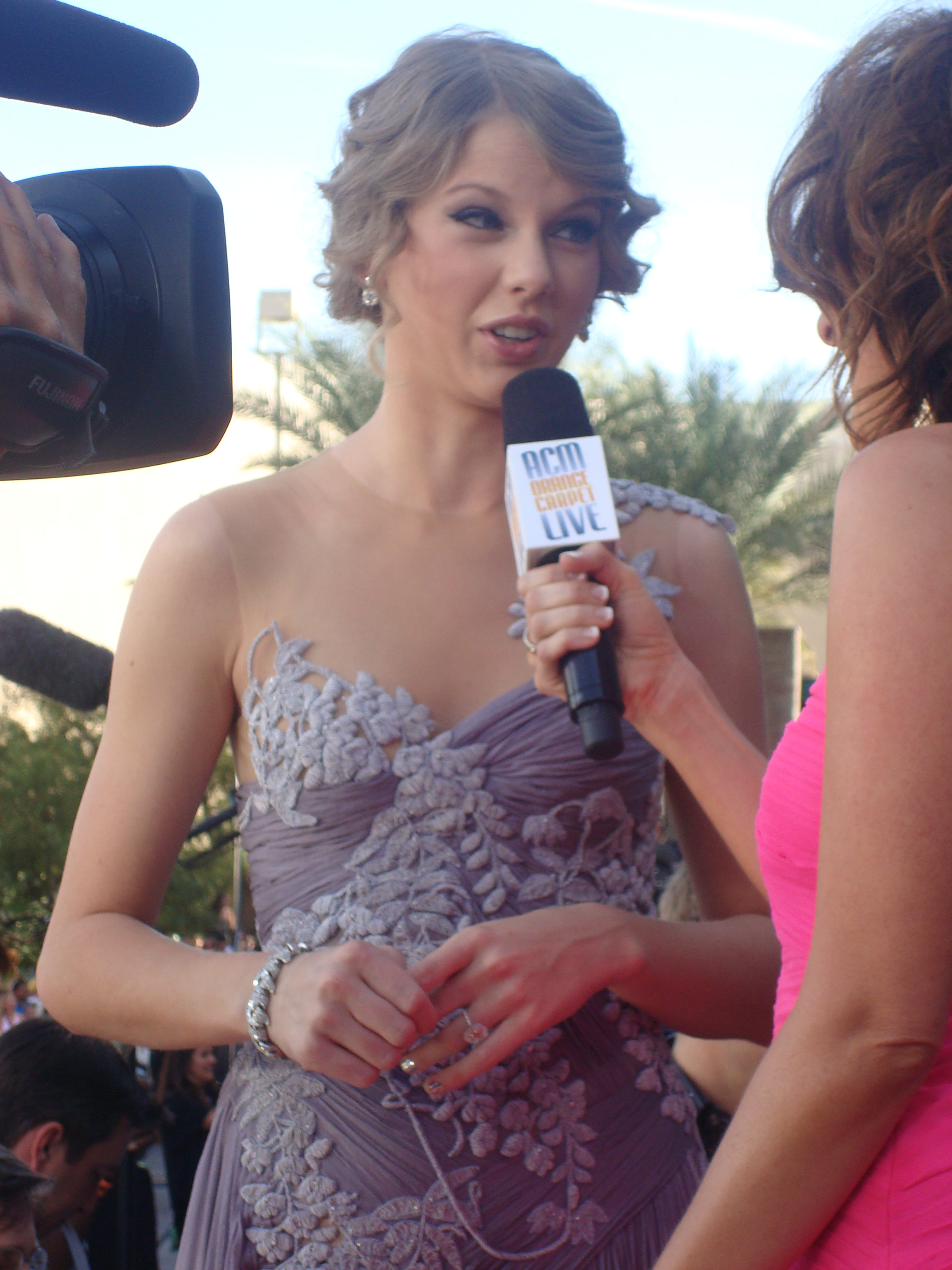 Taylor Swift at the 2010 Academy of Country Music Awards